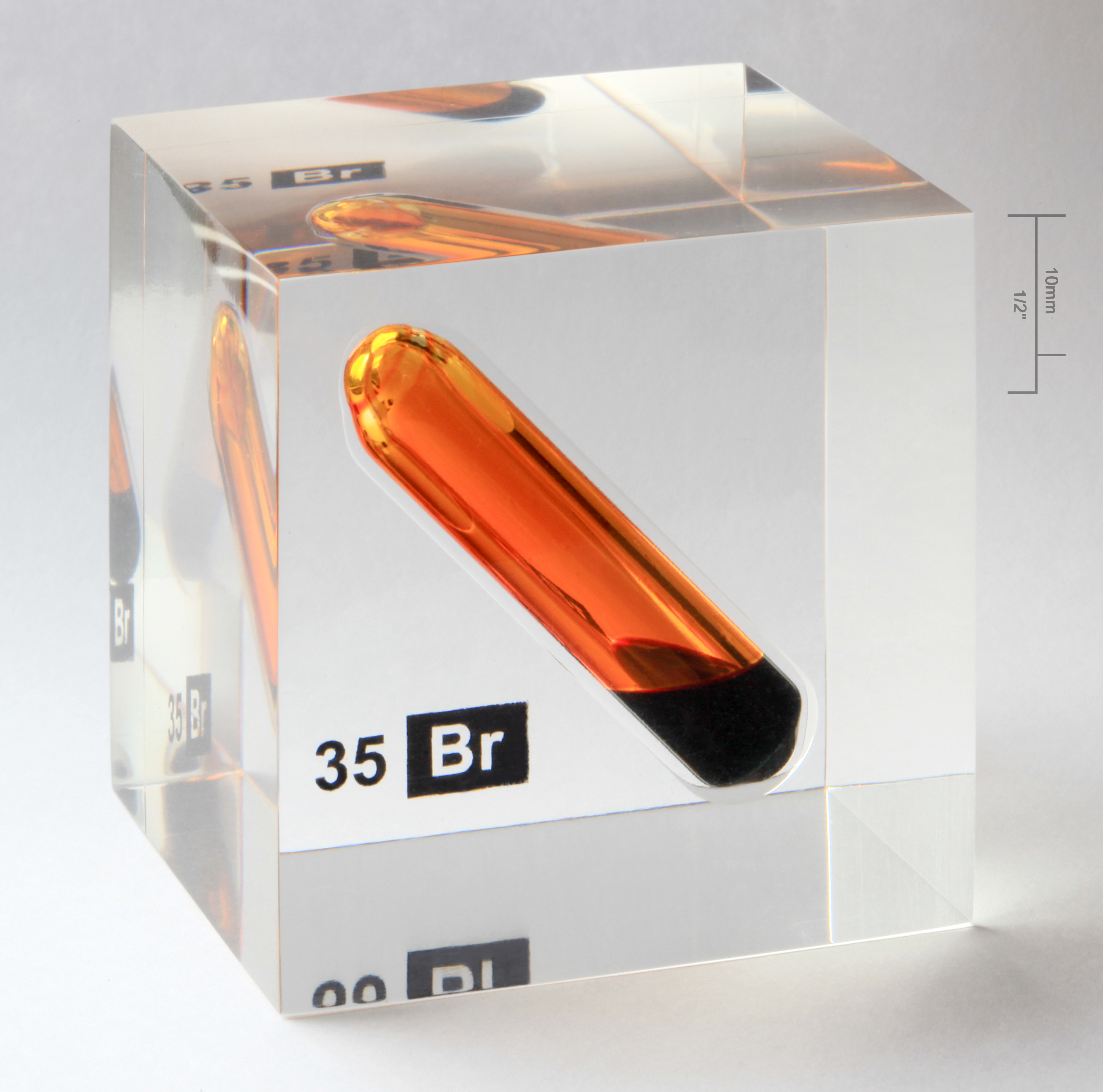 The chemical element bromine, purity 99,8%, amount ~2g, sealed in a borosilicate glass vial (ampoule), sealed in a 2-inch cube of acrylic.